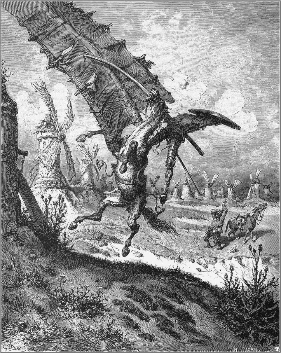 Don Quixote fighting a windmill on his horse, Rocinante. In the background Sancho Panza next to his donkey.